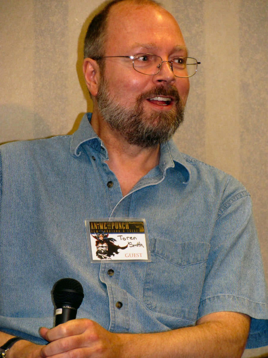 Toren Smith, founder of Studio Proteus and manga translator during an interview at Anime Punch 6, on April 23, 2011 in Columbus, Ohio USA.